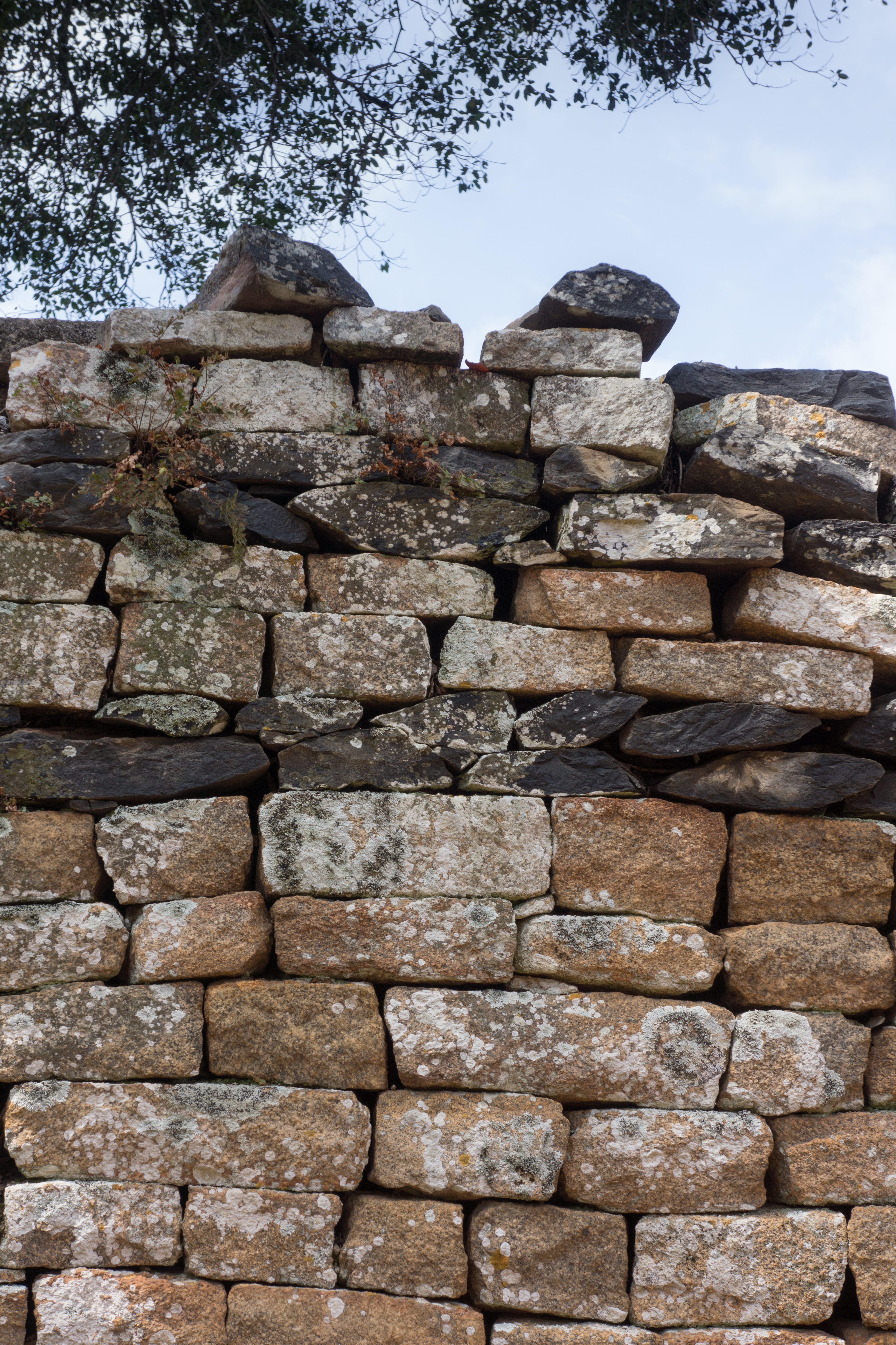 The making of this document was supported by Wikimedia CH. (Submit your project!) For all the files concerned, please see the category Supported by Wikimedia CH. Great Zimbabwe